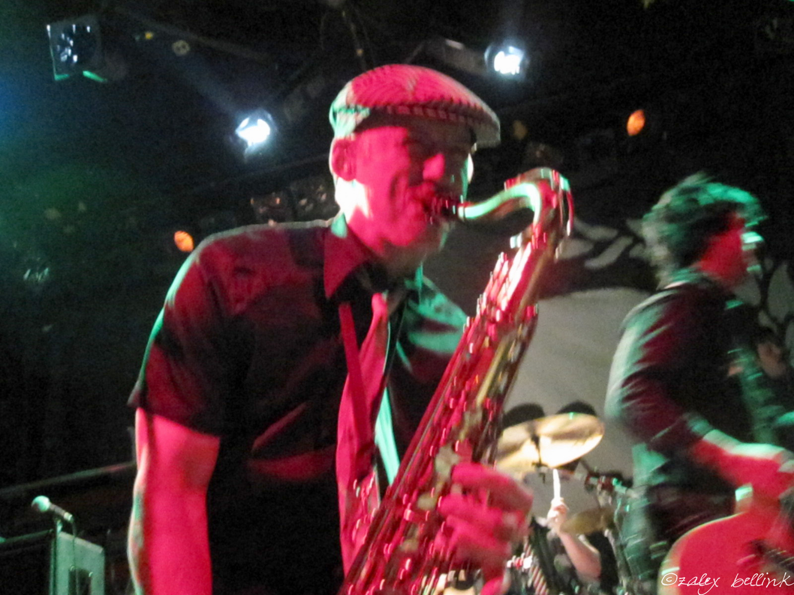 Jason Freese performing with Green Day at the Bowery Ballroom in New York City.